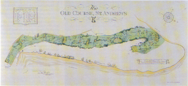 The Old Course of St Andrews, drawn in 1921 by Alister MacKenzie (dead 1934). Picture from the Swedish golf dictionary "Golflexikon, Bokförlaget Bra Böcker, Höganäs, 1995"